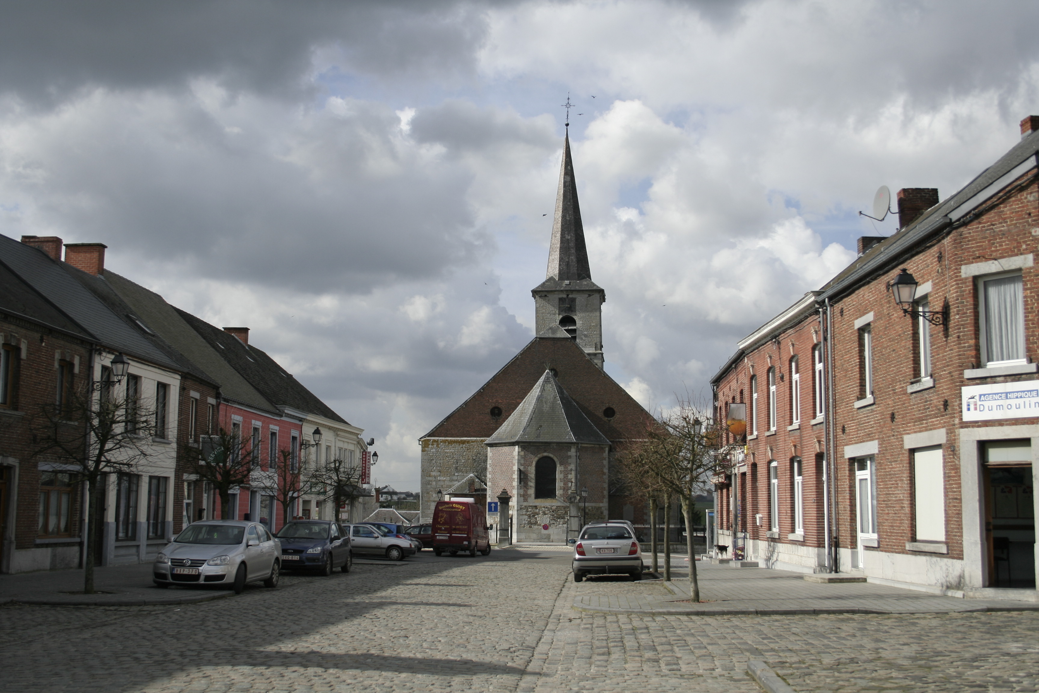 Froidchapelle (Belgium), the place Albert 1er and the Saint Aldegone apse (XVI-XVIIIt centuries).